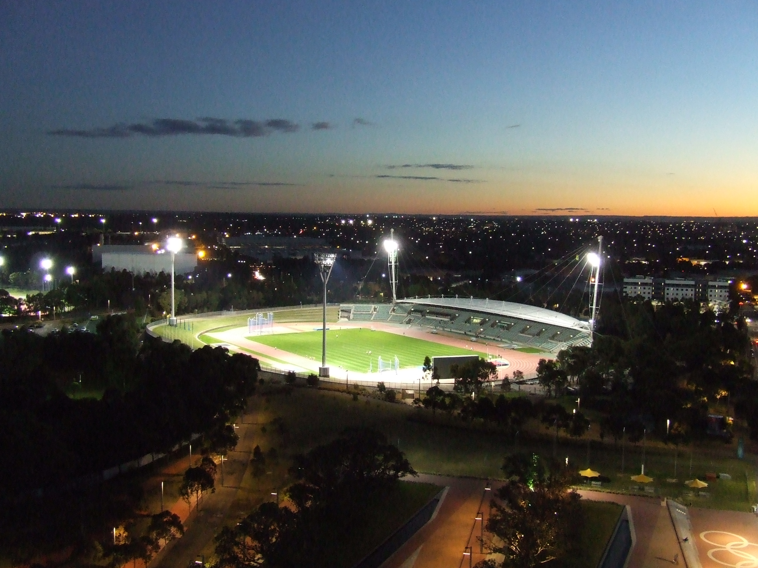 Evening athletics meet at Sydney Olympic Park, photo taken from the top of the Novotel hotel